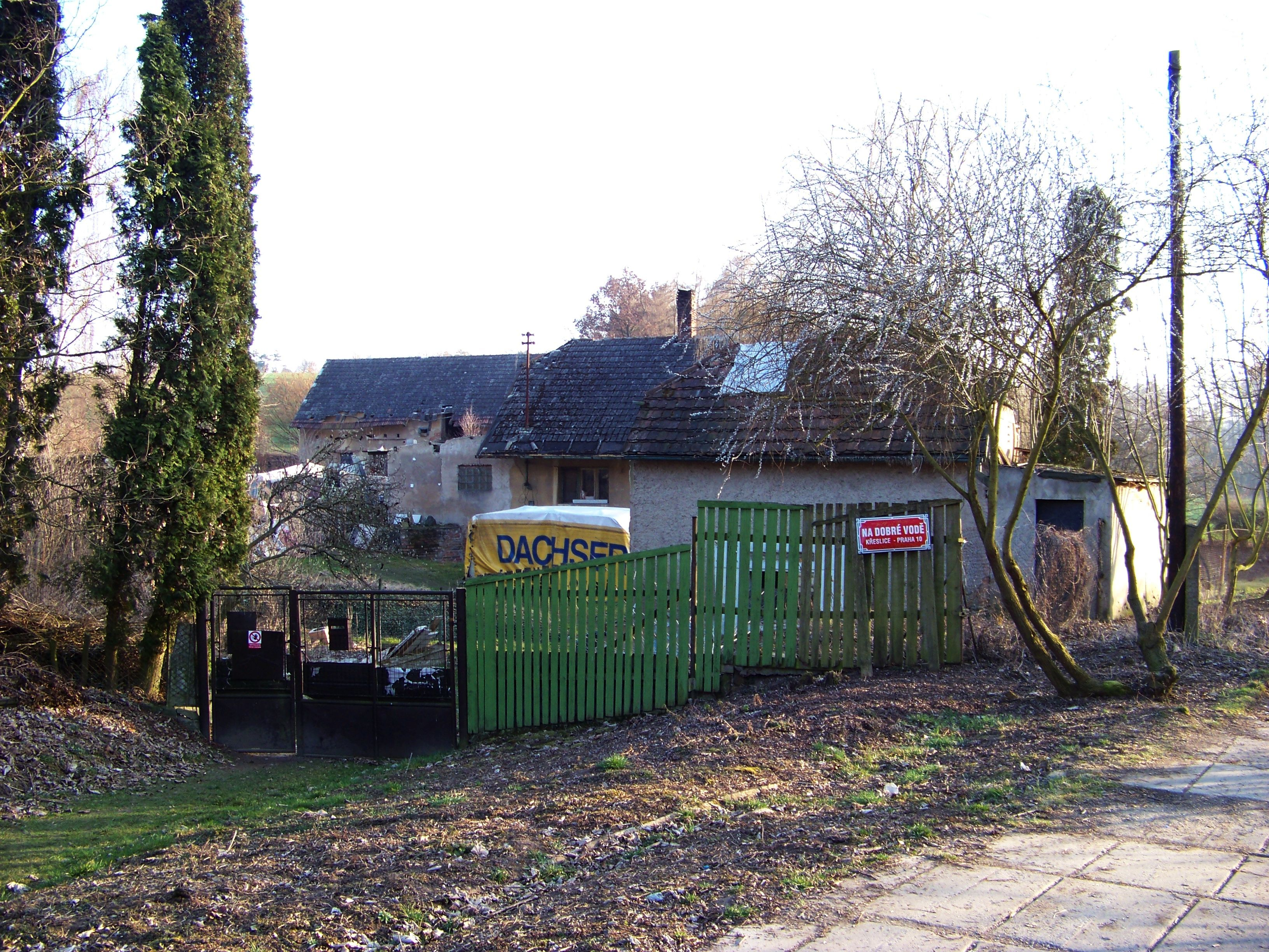 Prague-Křeslice, Czech Republic. Na dobré vodě 39.